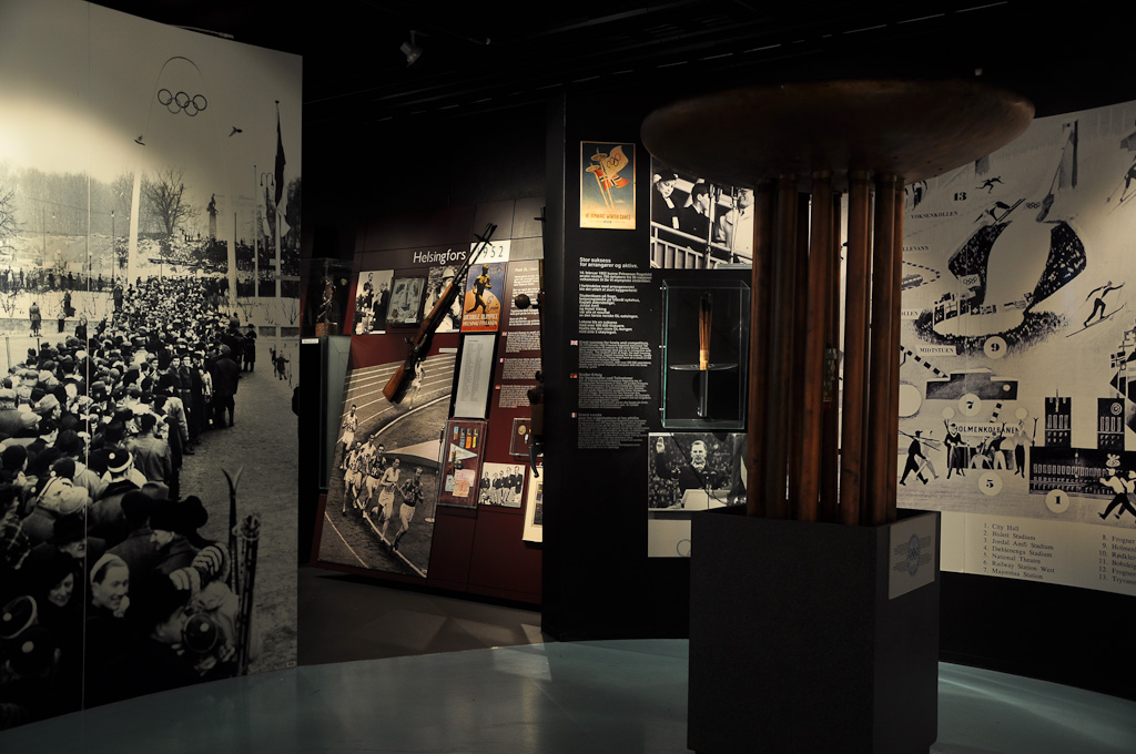 The Norwegian Olympic Museum at Lillehammer, exhibition until 2015 / Norway.